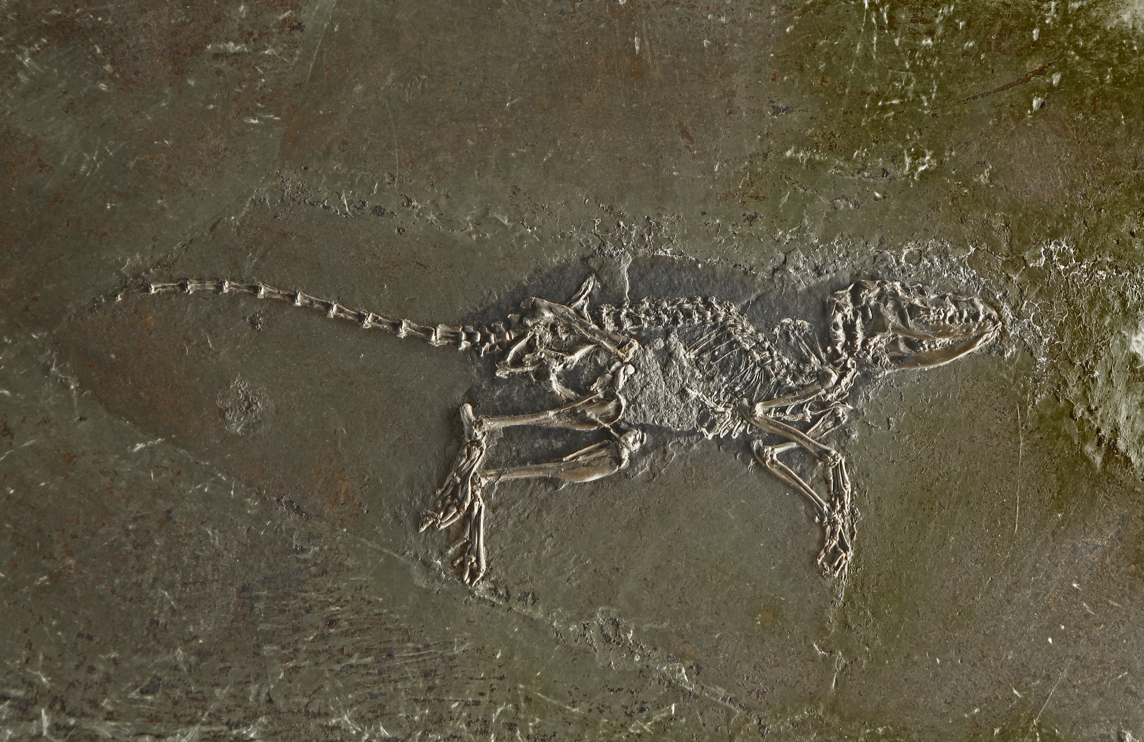 Eocene, Messel, Germany; Staatliches Museum für Naturkunde Karlsruhe, Germany.